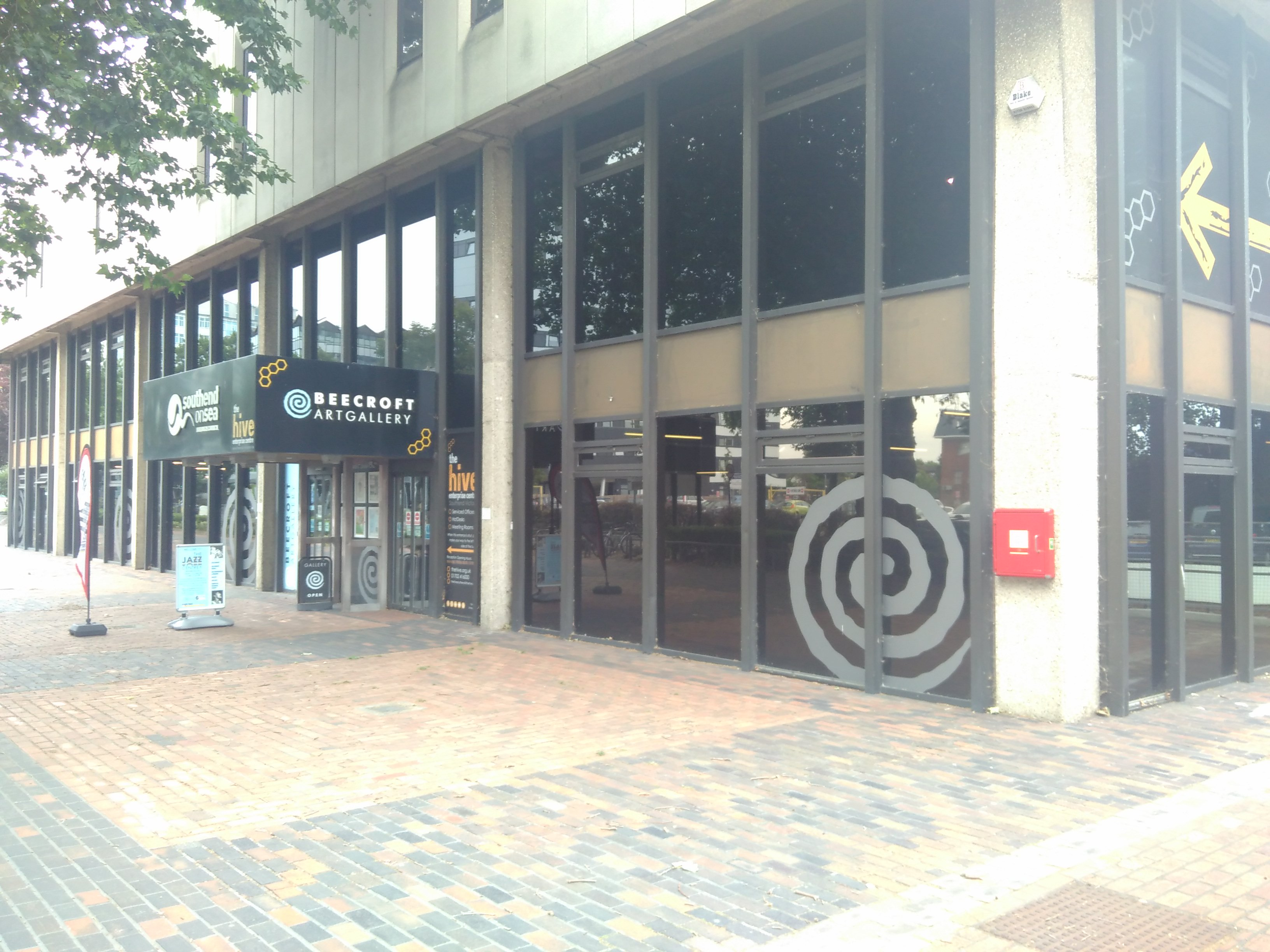 Art gallery in Southend-on-Sea This was previously the library. The ground floor is art gallery, basement is jazz archive, and upper floor is the hive business space.